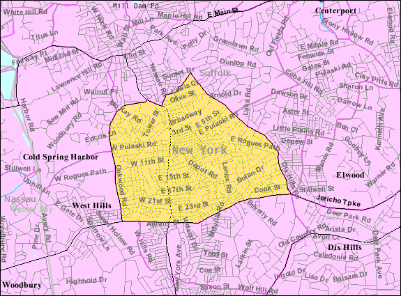 U.S. Census 2000 reference map for Huntington Station